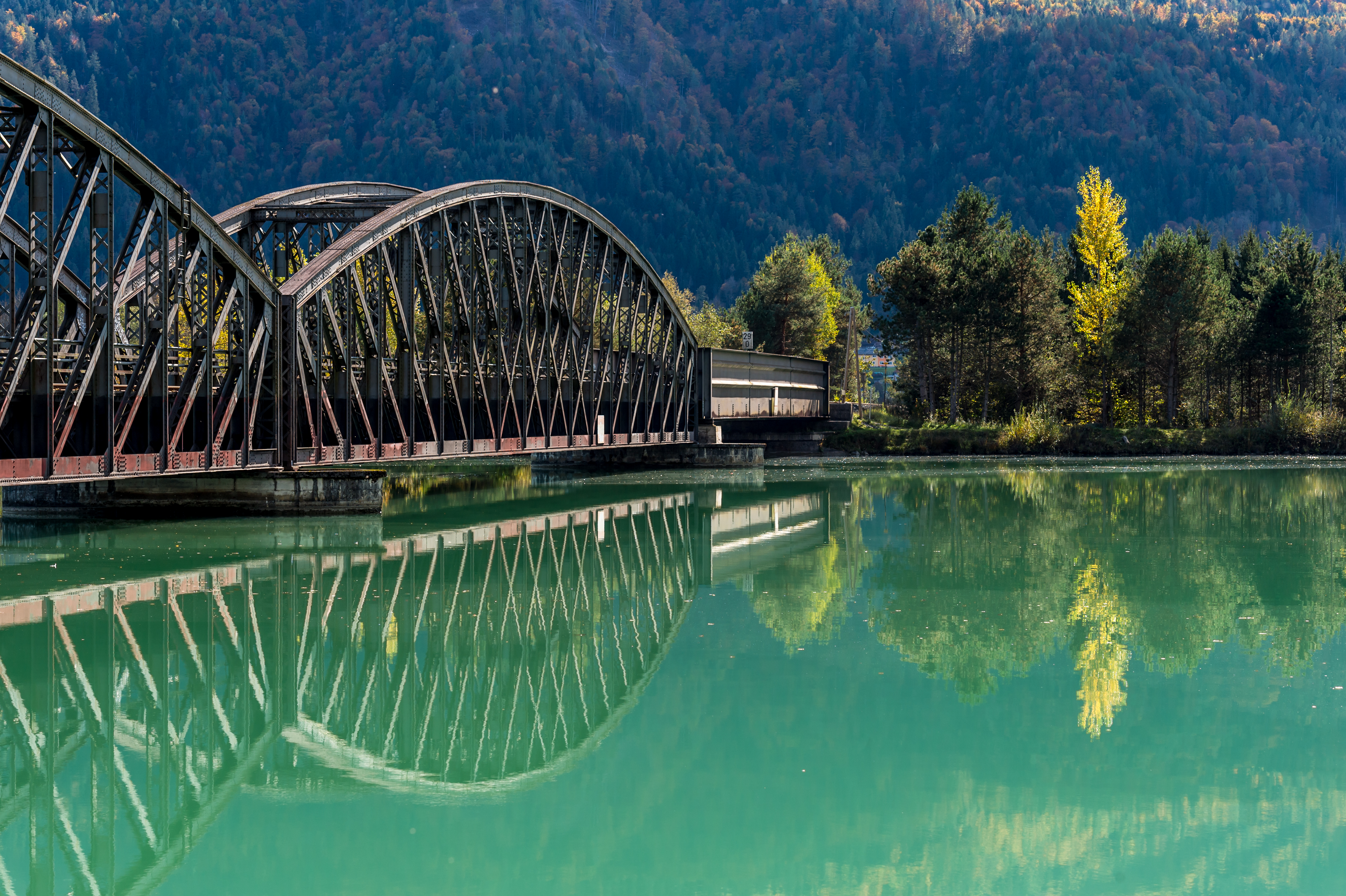 Railway bridge across the Ferlach reservoir of the river Drava in Unterschlossberg (submontane the castle Hollenburg), municipality Koettmannsdorf, district Klagenfurt Land, Carinthia, Austria, EU